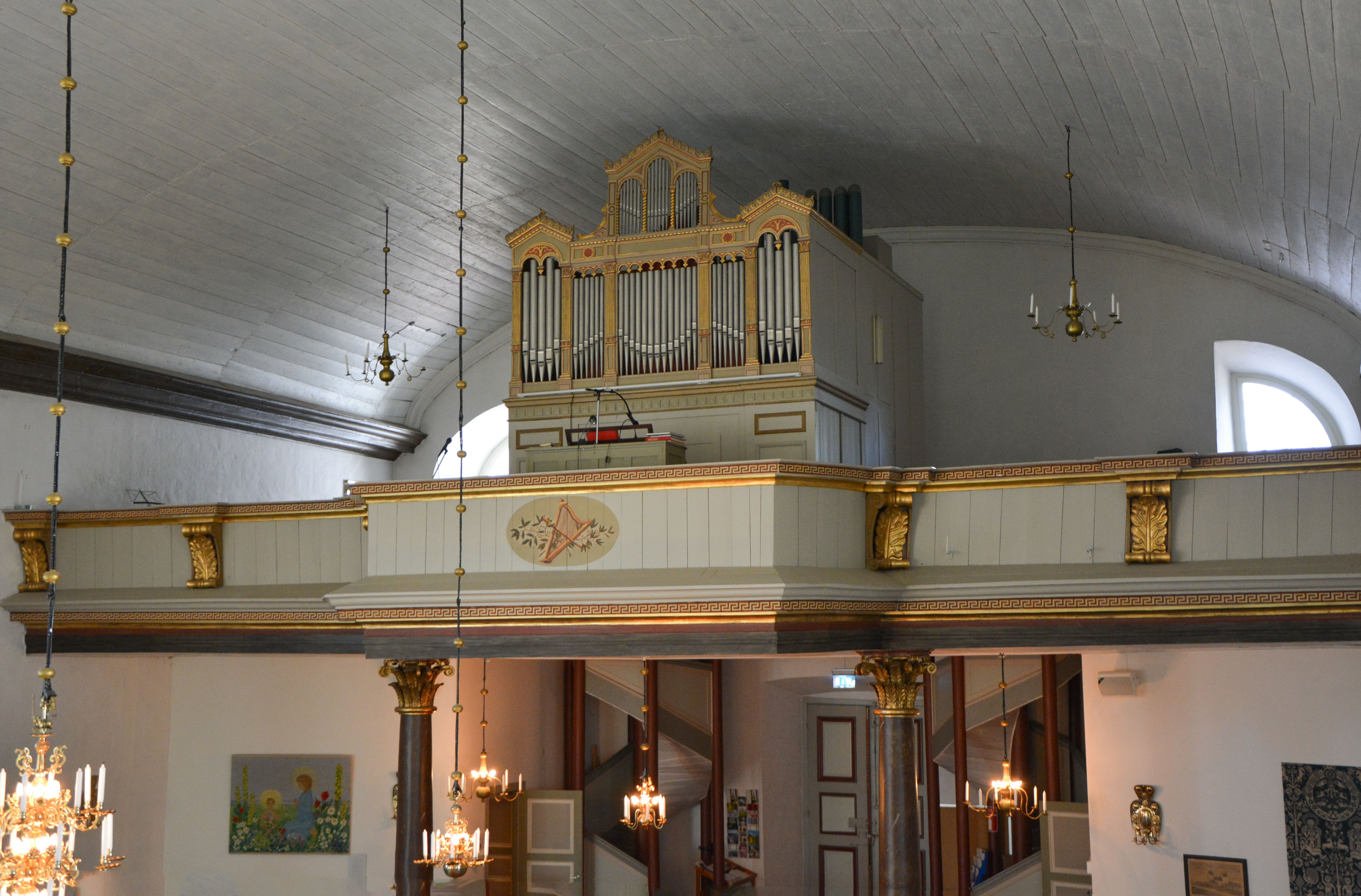 Runsten Church.The organ